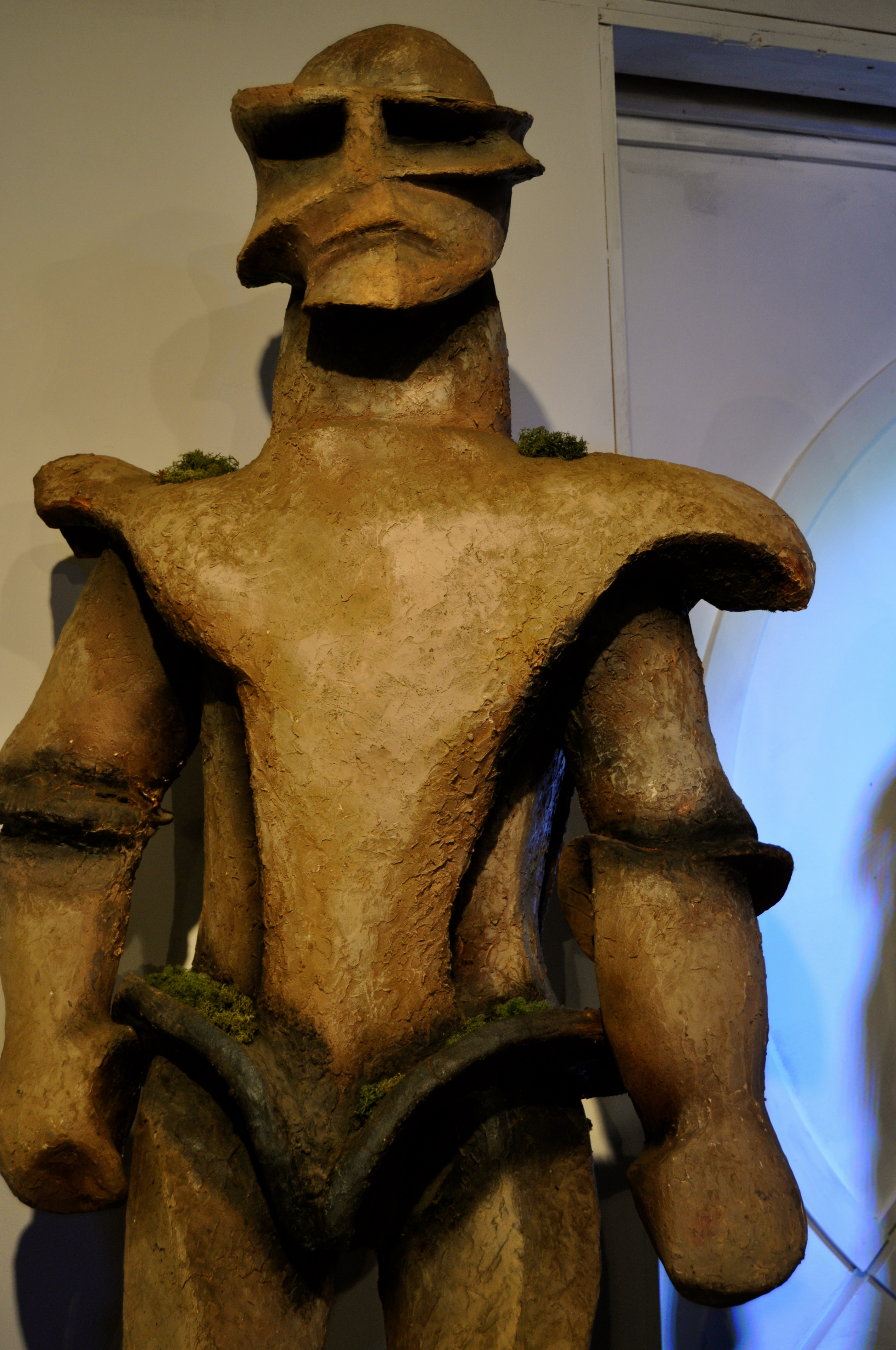 DWE Cardiff Bay, Port Teigr November 2016 Doctor Who Experience